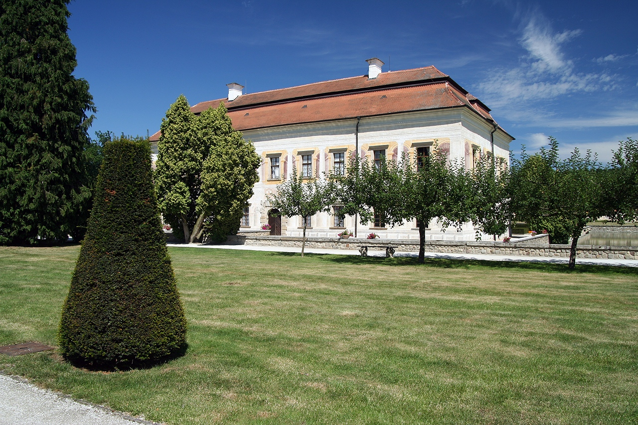 Castle Kratochvile, main building